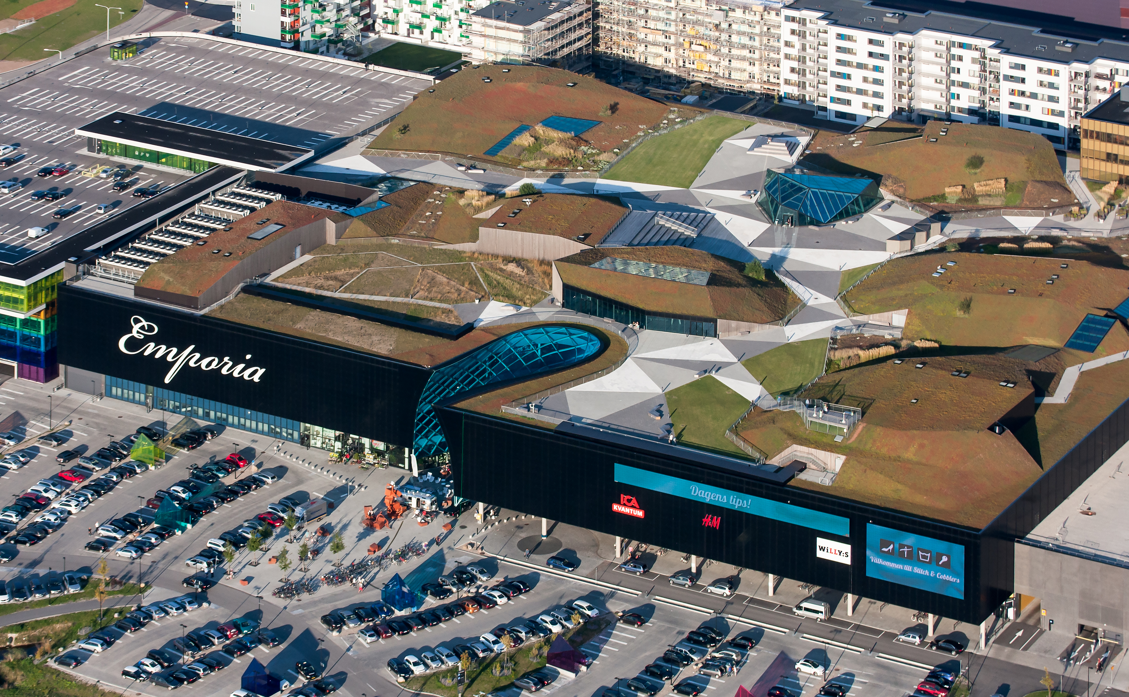 Shopping mall Emporia in Malmö, Sweden